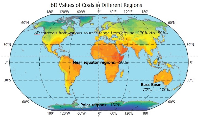 Modified by inserting the data from papers by Redding (1980), Rigby and Smith (1981), and Smith (1983) on the map from Annu.Rev.Earth Planet.Sci.2010.38:161-187.